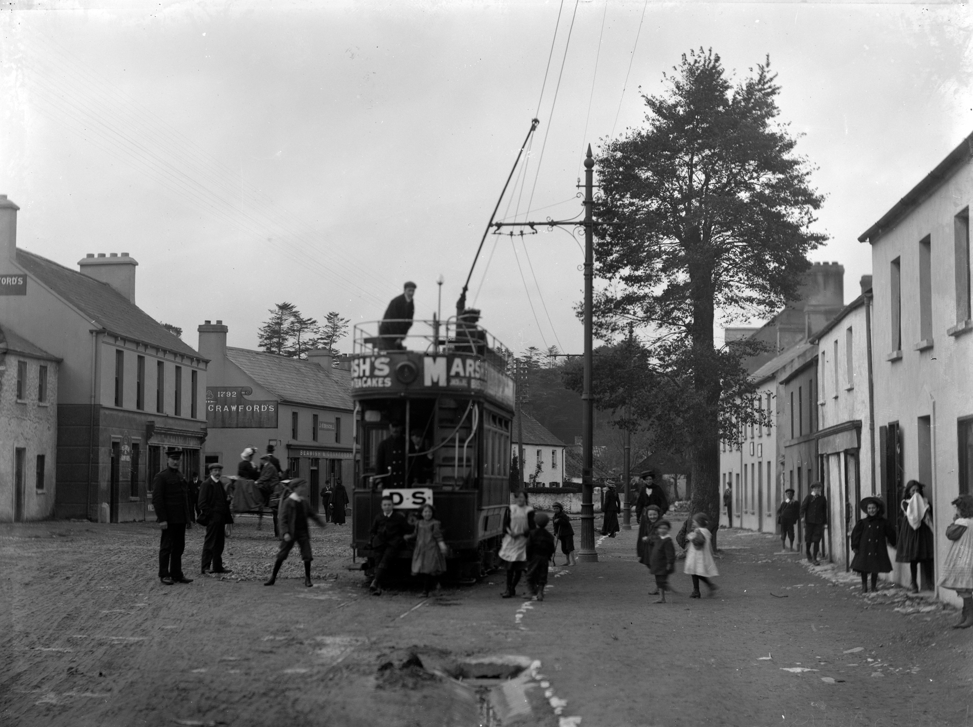 This is a street scene from Cork with an electric tram and would be passengers. This is from the Fergus O'Connor collection. The Location was correctly Identified as Douglas village in Cork in very quick time by [/photos/denise-murphy-photos/ NeicyMurphy] Just ahead of others. No luck in finding a definitive date for this photo. But, there is still time for all you researchers to let us know. I am also surprised that we did not identify at least one of the people in the photo! Photographer: Fergus O'Connor Date: No date but circa 1900 to 1920 Reference: OCO 298 You can also view this image, and many thousands of others, on the NLI’s catalogue at